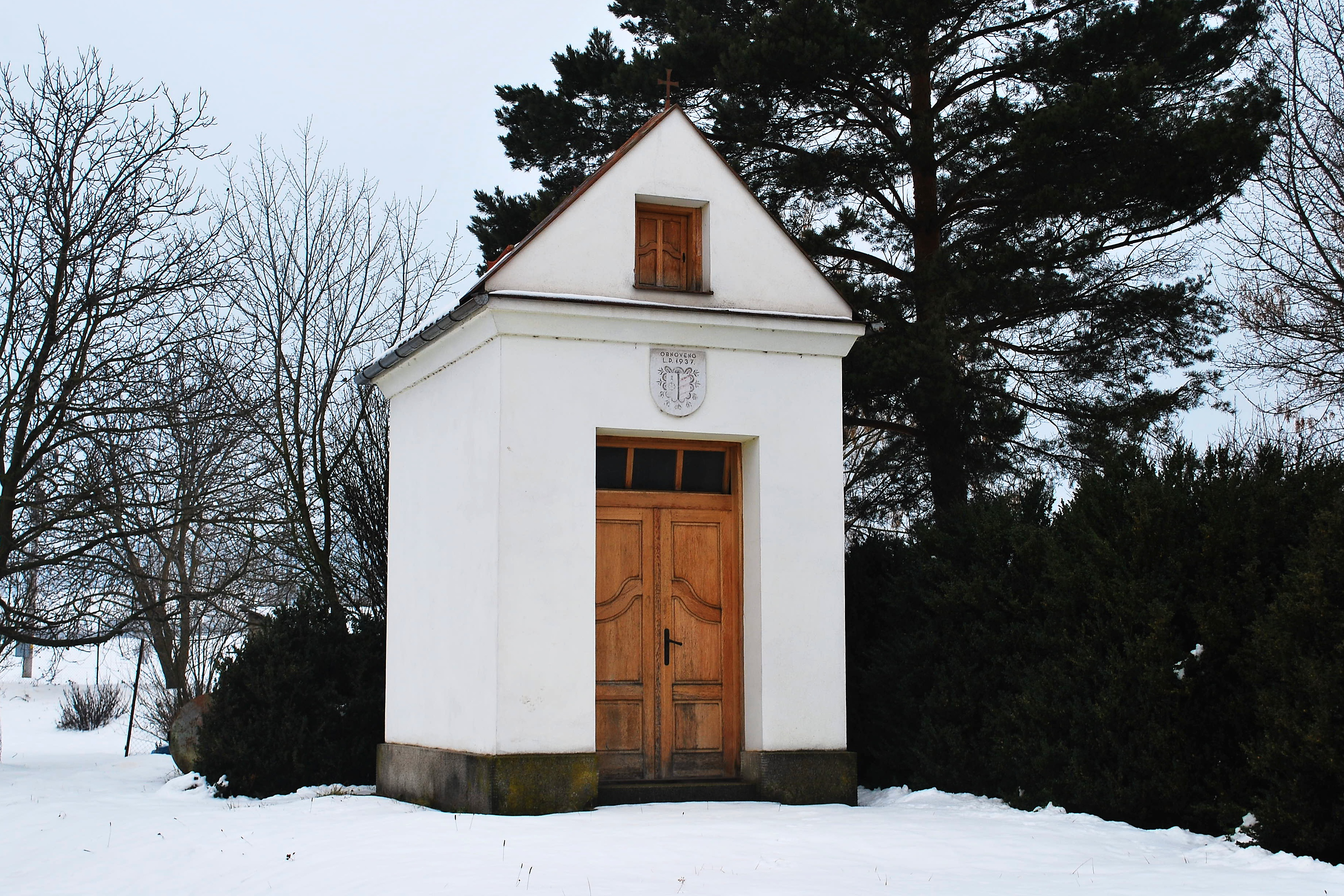 Chapel Guardian Angel (Prostějov), SW edge of the village, right next to the road Domamyslice - Seloutky, Prostějov